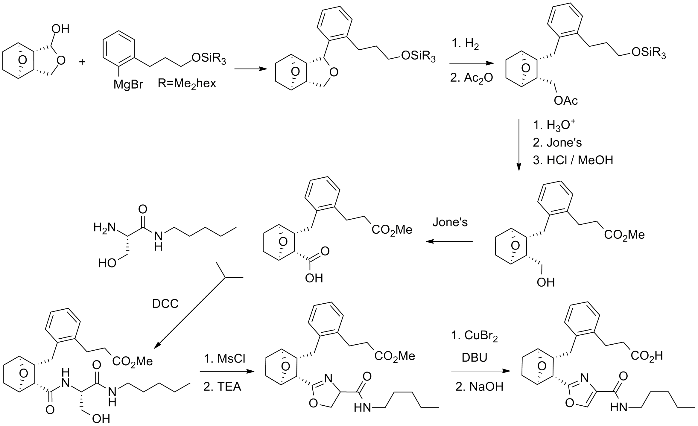 Drugs Future (c.f. Lednicer book 6)